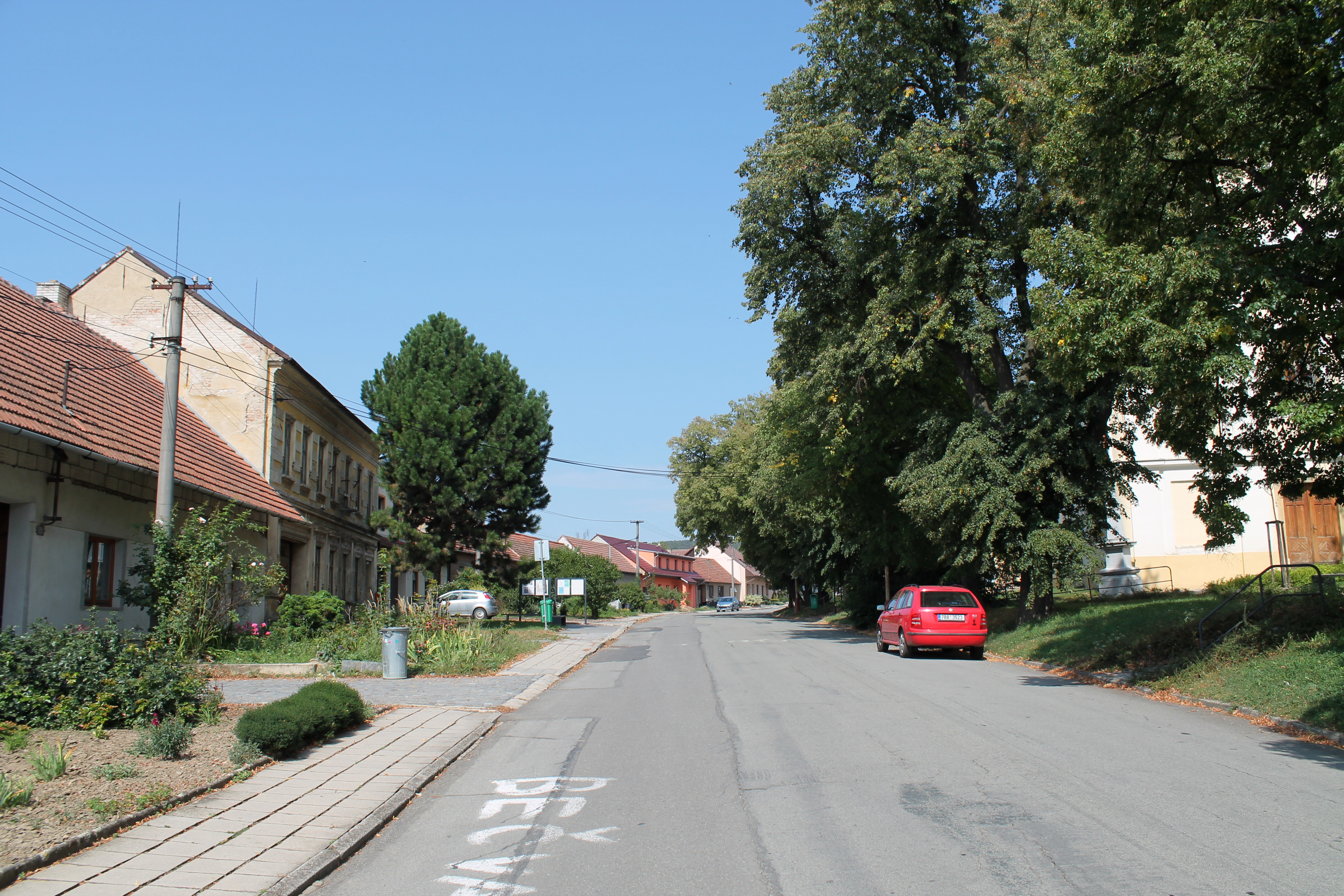 Královopolské Vážany, Rousínov, Vyškov District, Czech Republic